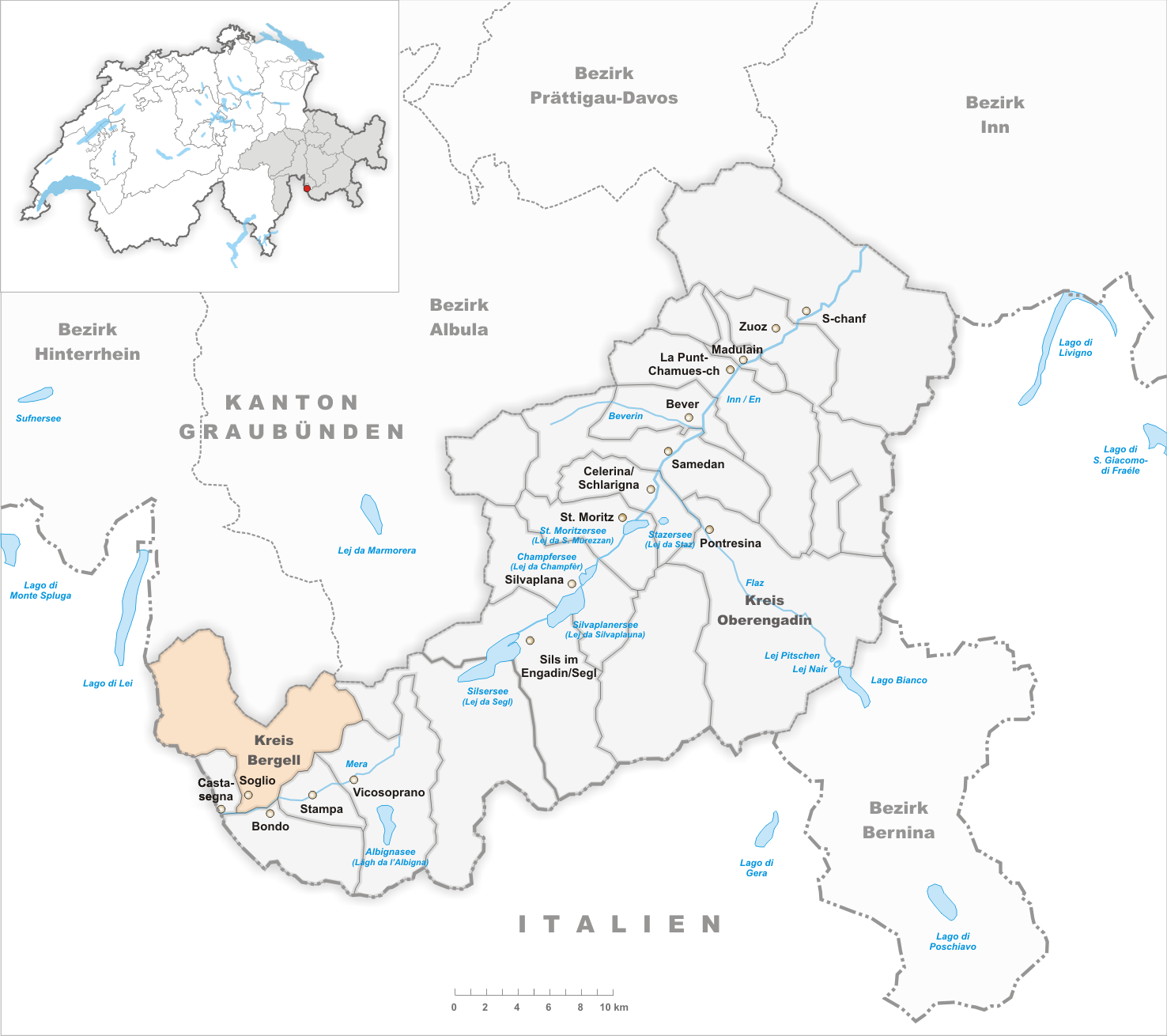 Municipality Soglio